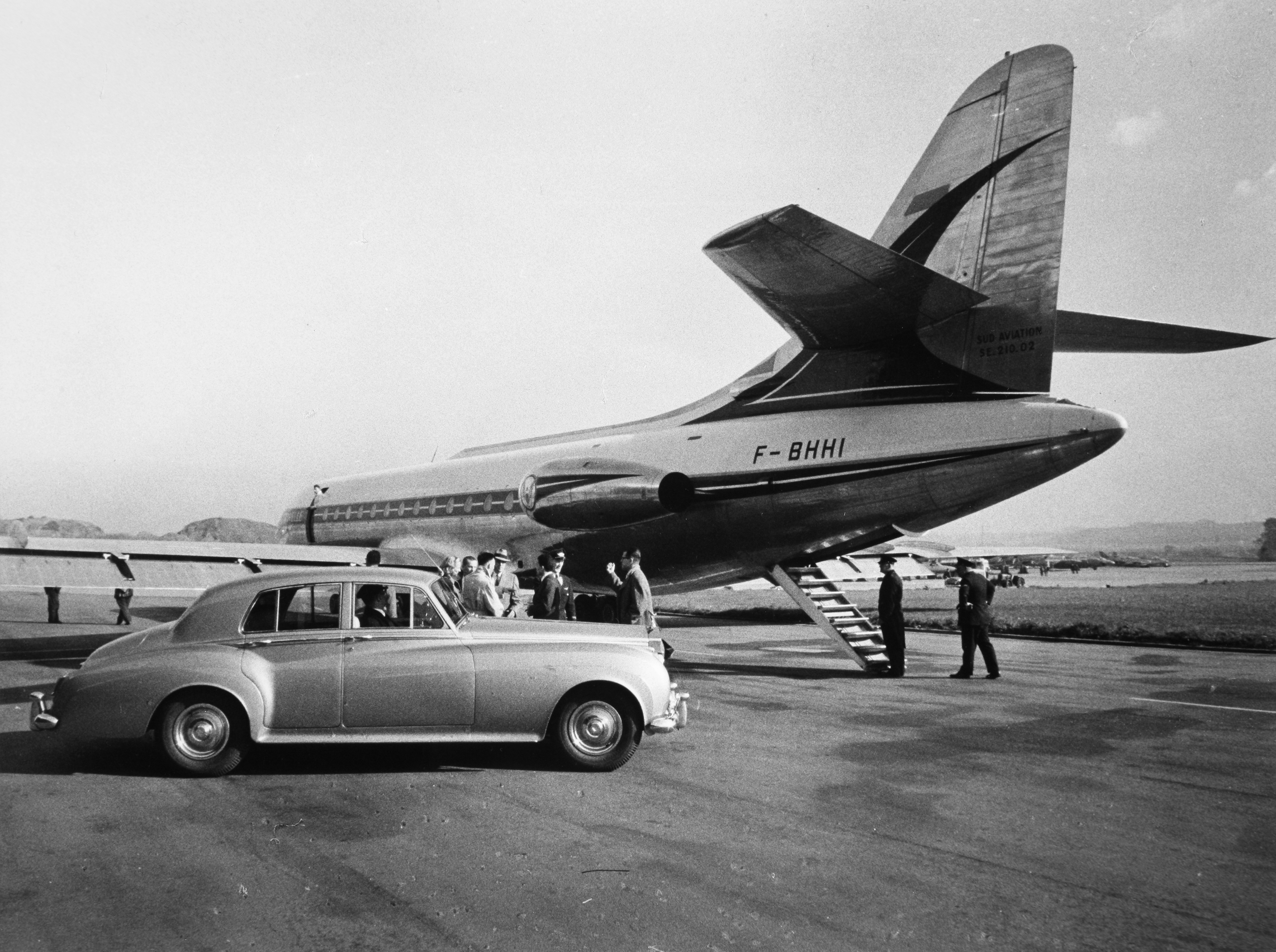 SAS Carvelle SE-210 LN-KLH Finn Viking. Being inspected by France´s president General Charles de Gaulle, spring 1959, Sud Aviation manfacturing.